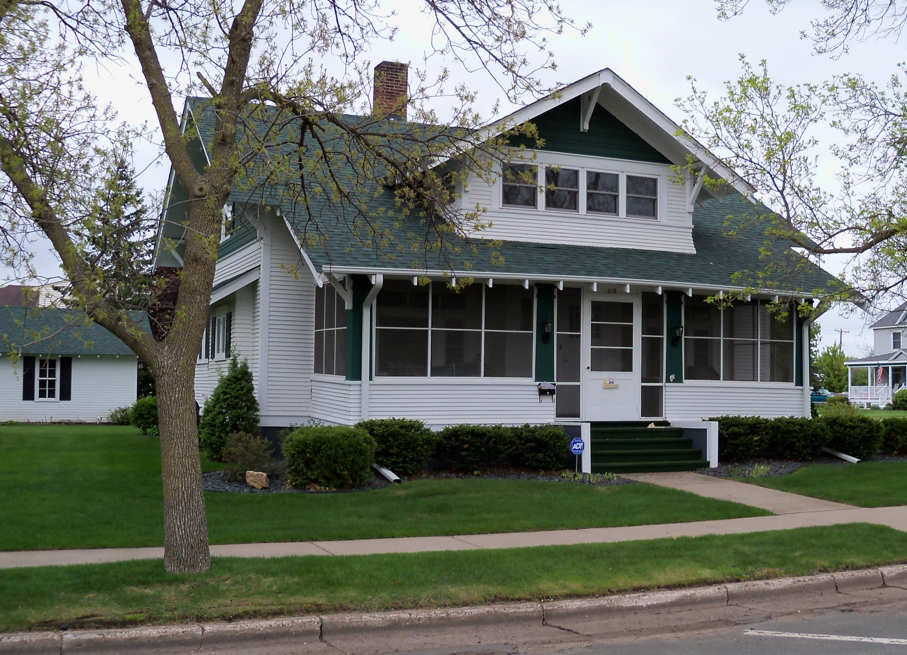 William J. Bernd House (2nd Street) in New Richmond, Wisconsin, USA.